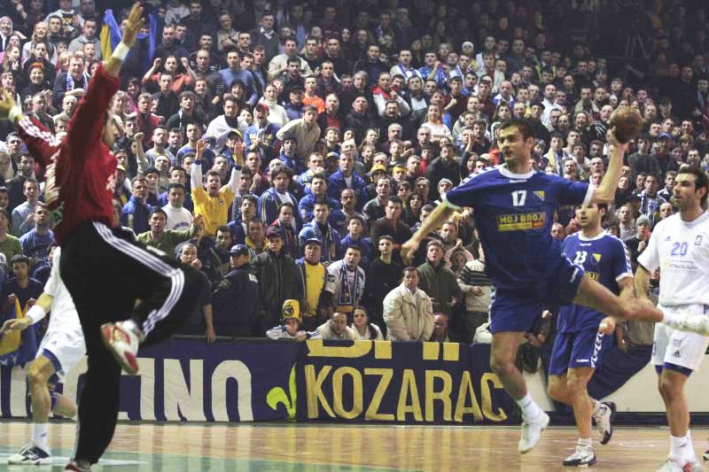 Bosnian handball player in the 2006 qualification for the WorldCup, game against Greece